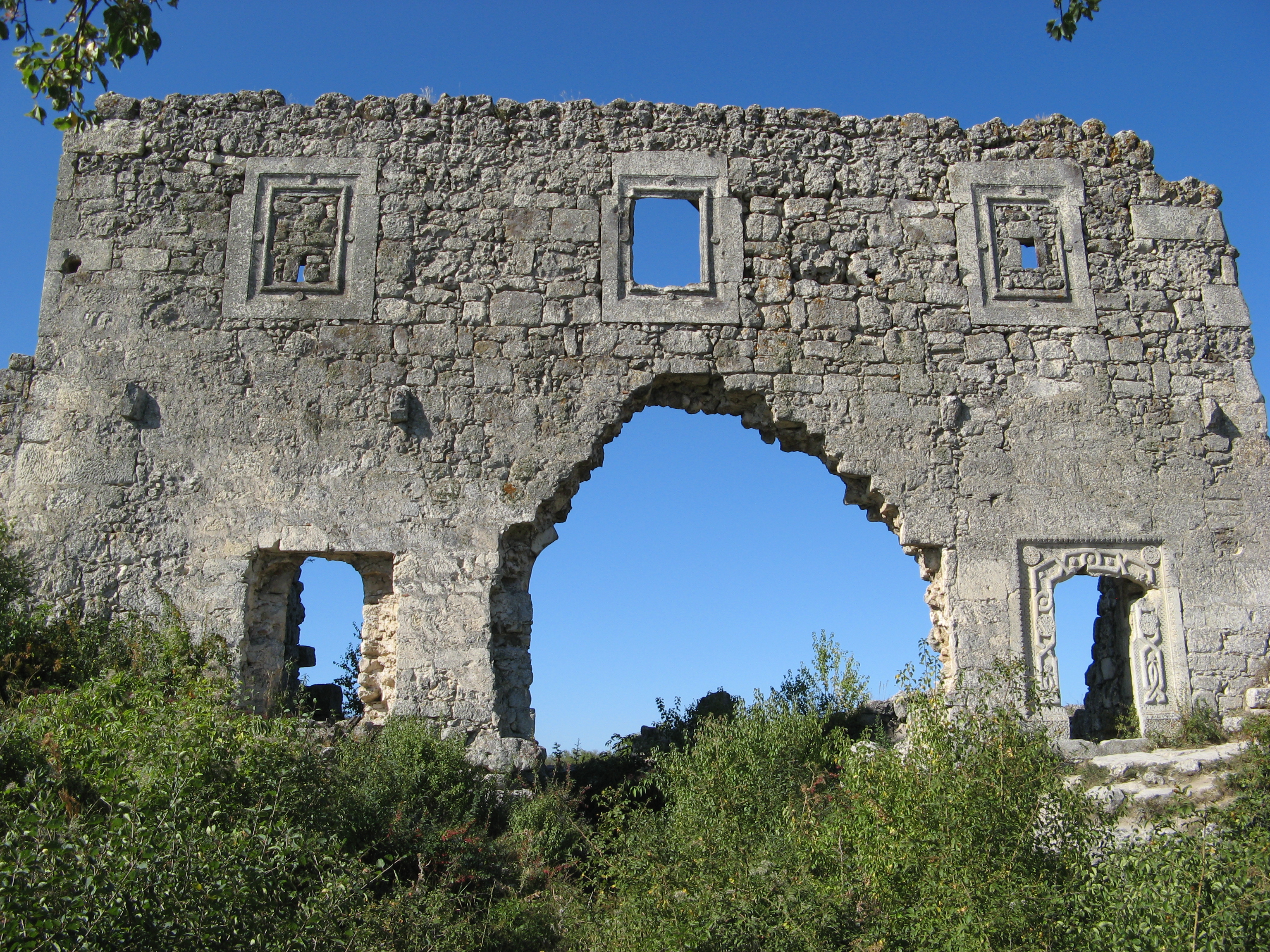 Mangup fortress